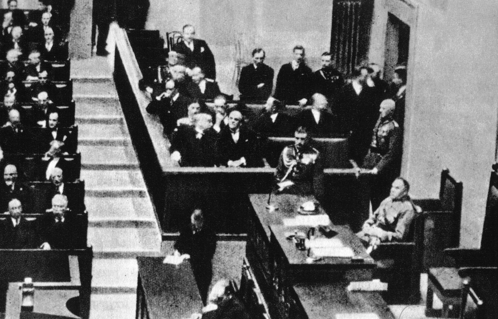 Józef Piłsudski in Sejm in 1928.